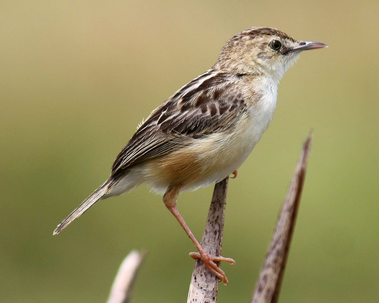 Zitting Cisticola (Cisticola juncidis) in Batticaloa, Sri Lanka